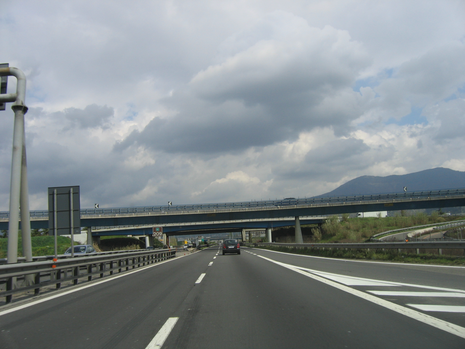 A1 highway, near Bologna